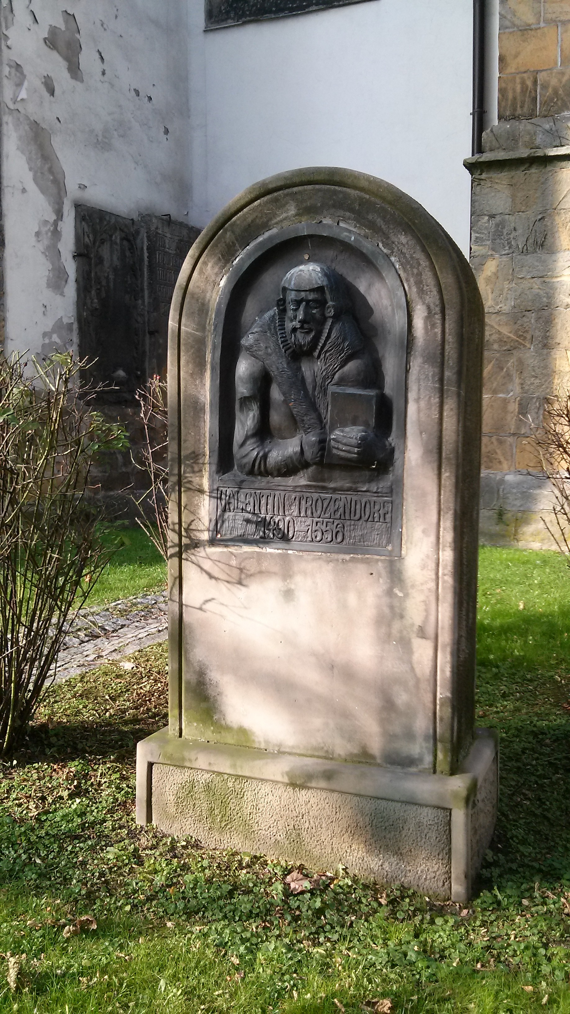 Złotoryja (Goldberg). Memorial to Valentin Trotzendorf.